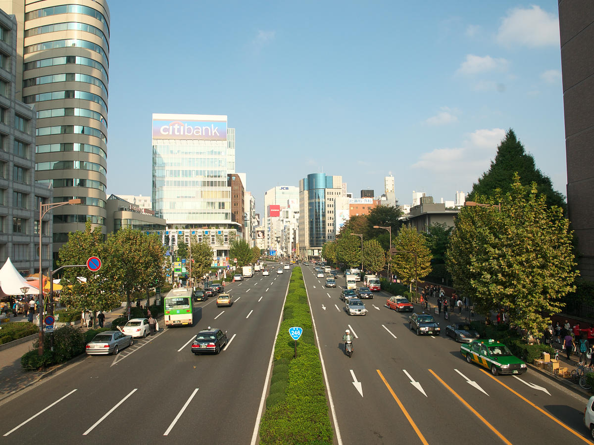 Route 246 Aoyamadori-street at Shibuya-ku.